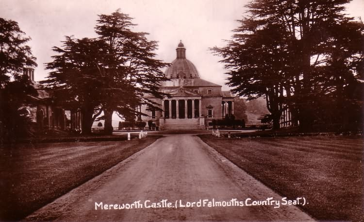 Mereworth Castle, Kent, a Fane & Colen Campbell collaboration, a postcard franked 1911.